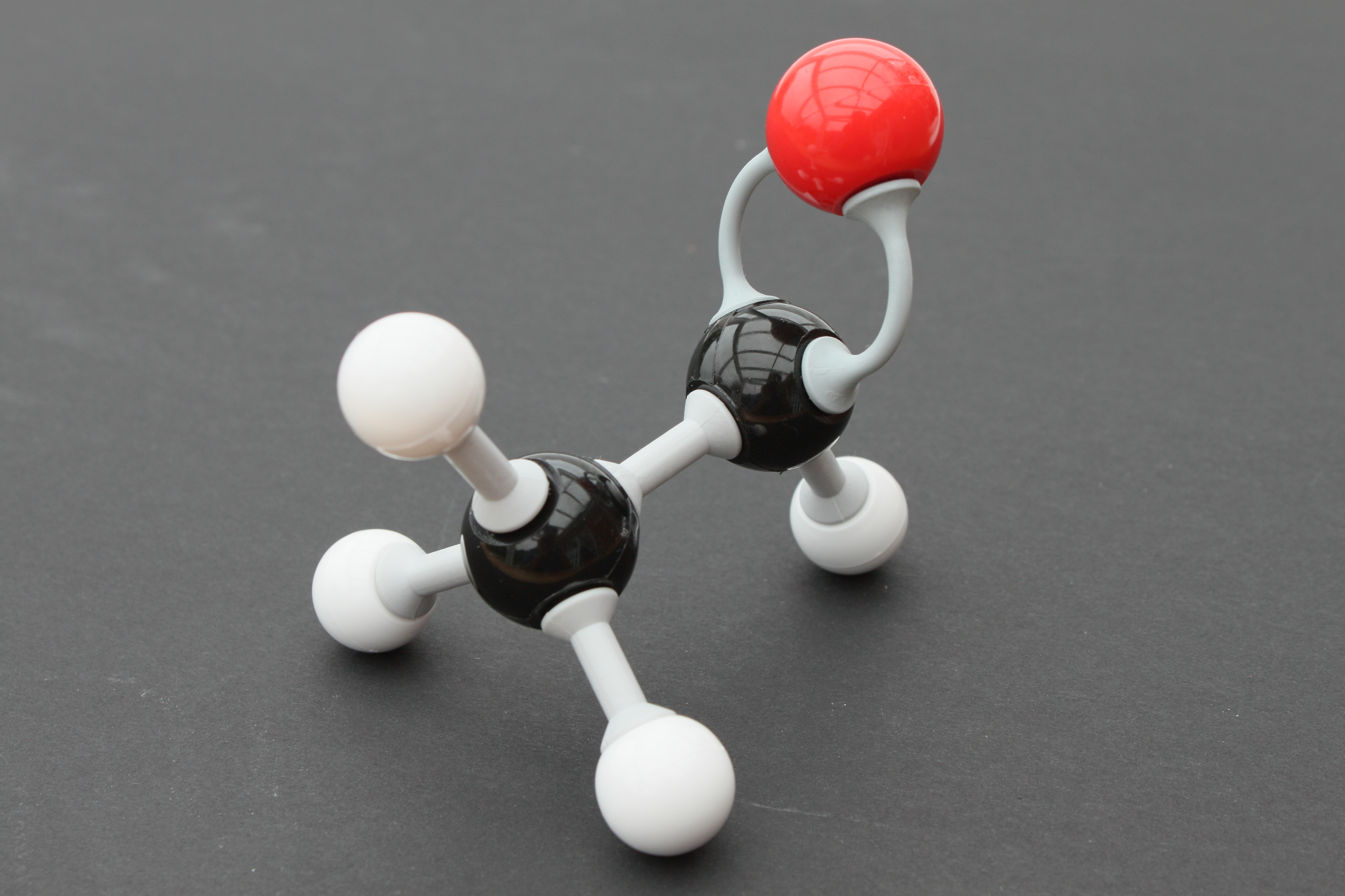 Chemical structures constucted with Prentice Hall Molecular Model Set for General Organic Chemistry